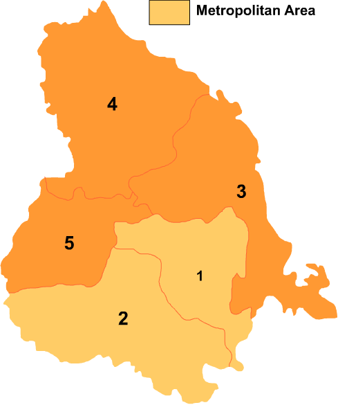 Map of Suining in Sichuan province